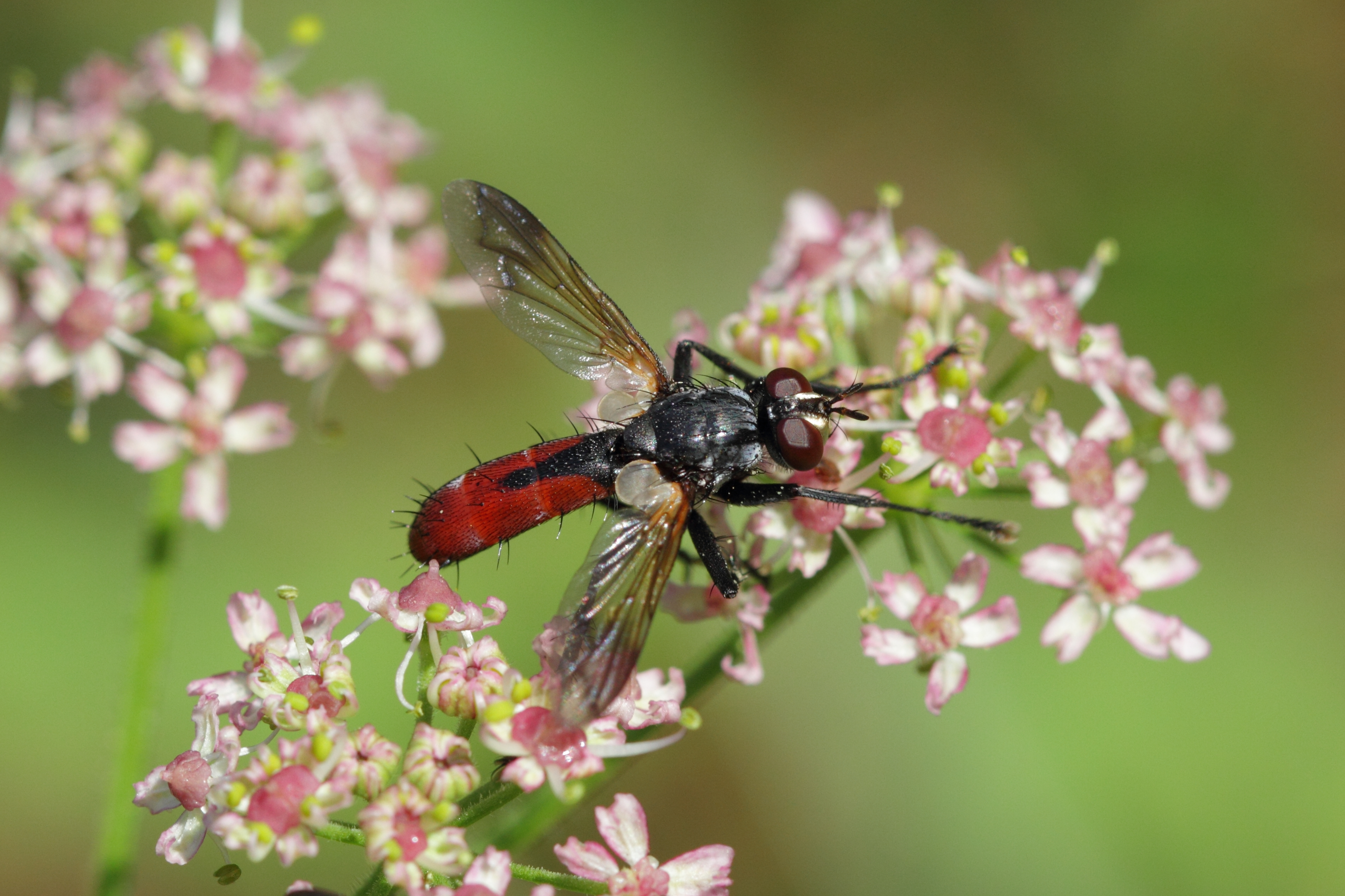 Cylindromyia bicolor from the Tachinidae family. Taken at the Schönbrunn Palace Botanical Garden. Vienna, Austria.